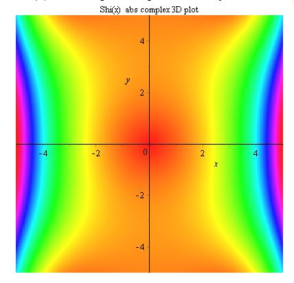 Shi(x) abs complex density plot